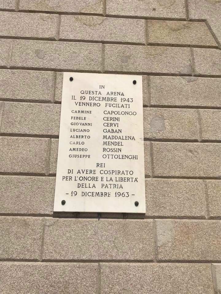 Plaque in Milan Arena remembering the execution of eight antifascist patriots on 19 December 1943